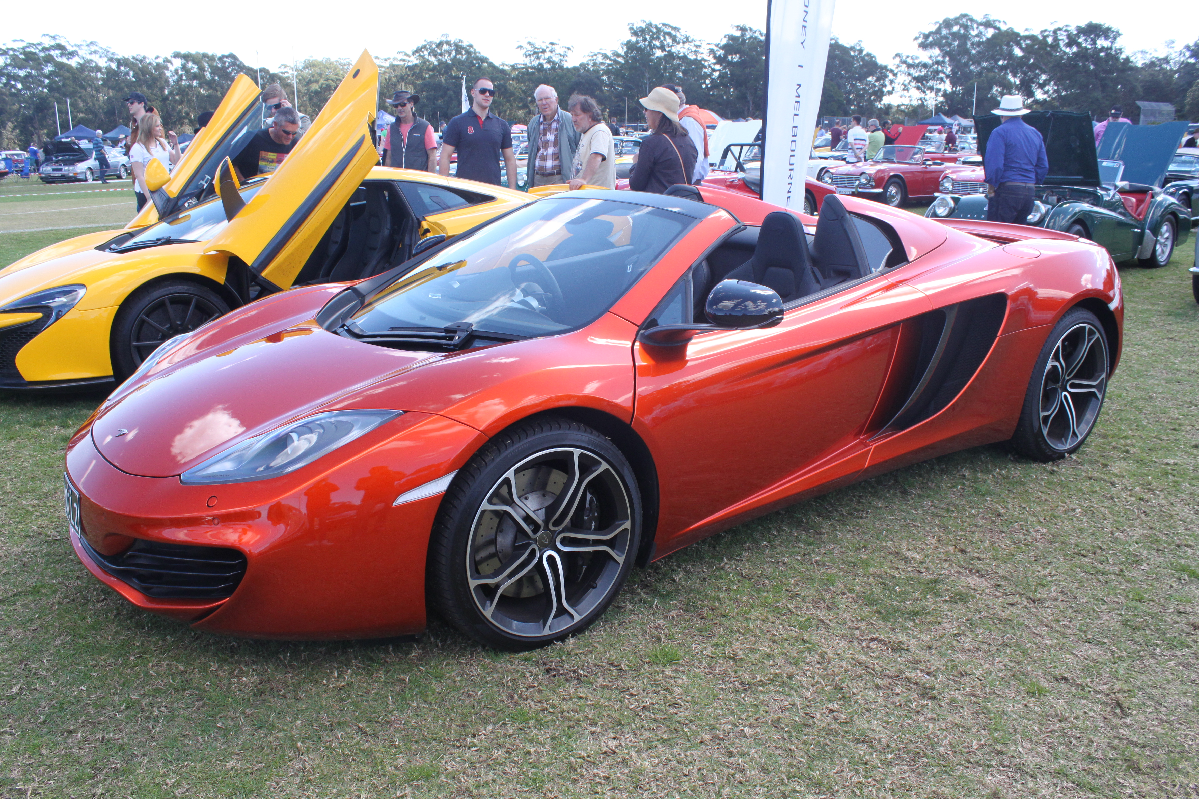 All British Day, Kings School, North Parramatta, NSW August 2015